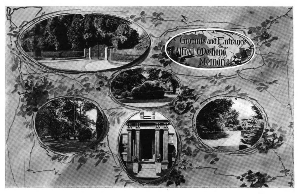 Photo Collage of the Grounds and Entrance of the Alfred O. Deshong Memorial from H.V. Smith's Chester and Vicinity published in 1914